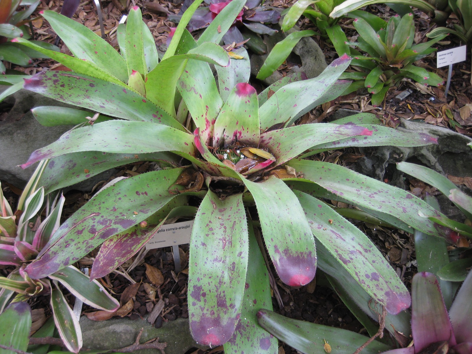 Photographed at the Royal Botanic Gardens Sydney (Australia) in January